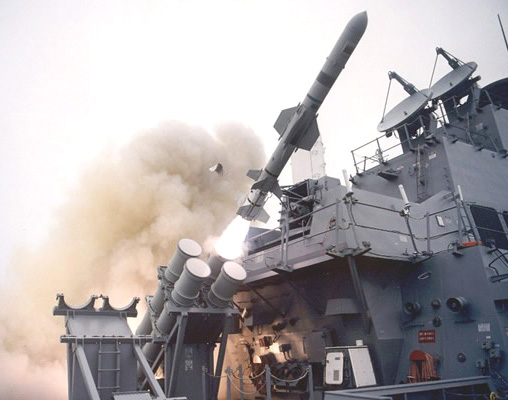 Harpoon Block II launch